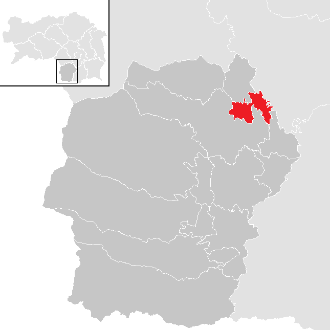 District Deutschlandsberg, Styria, Austria